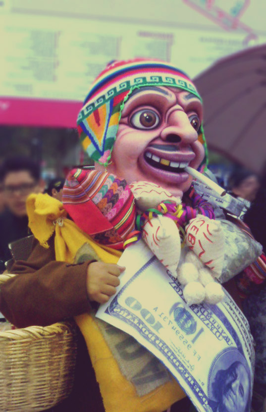 Ekeko manifestación cultural del altiplano